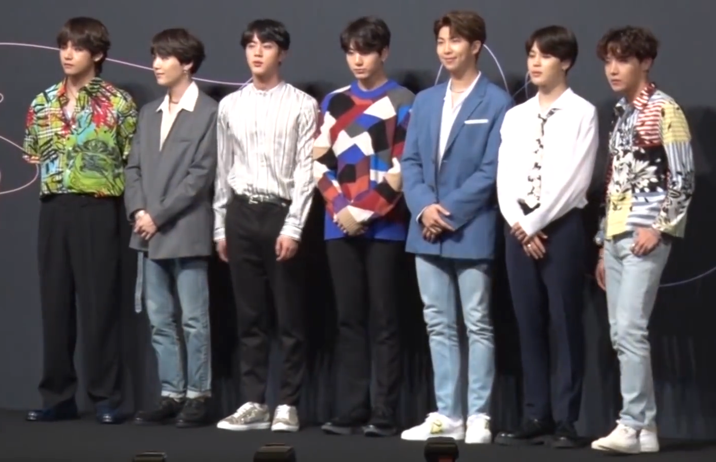 BTS at a press conference for their 2018 LP Love Yourself: Tear on 24 May 2018